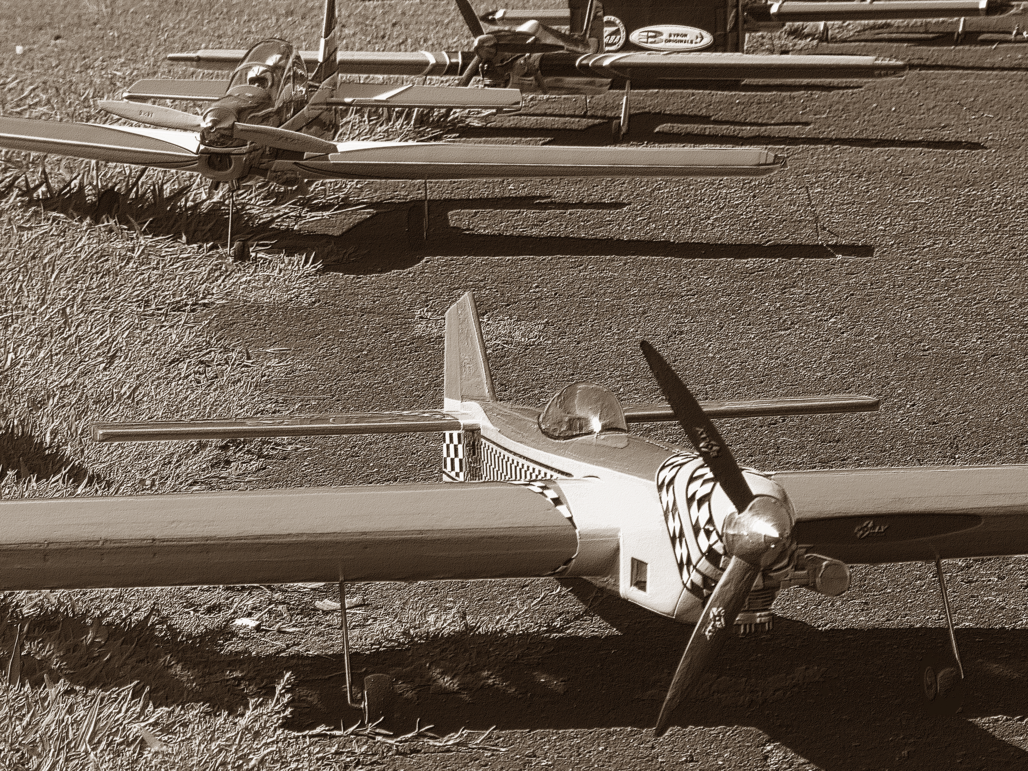 A Control Line aircraft at Ibirapuera Park